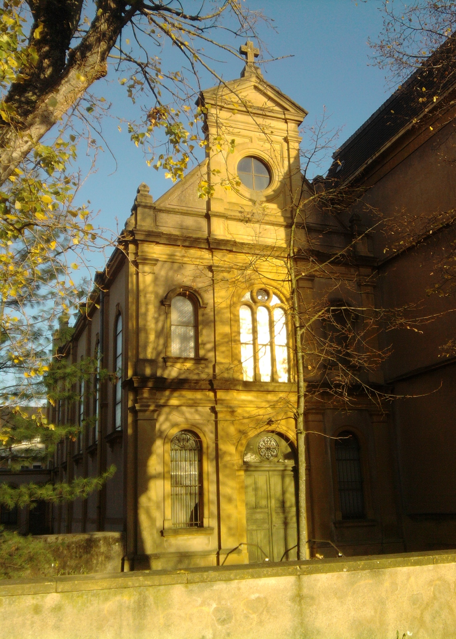 Photography of the chapel Ste-Chrétienne in Metz-Sablon (Moselle) XVIIIth century